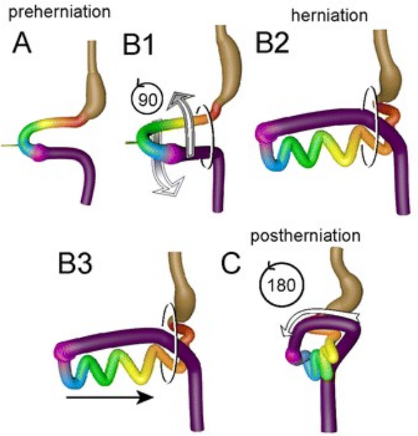 Diagram showing the normal process by which the intestine "rotates" and herniates during developmentFrom original summary: "Graphical summary of the “en-bloc rotation” and our hierarchical model of gut morphogenesis. Panels a-c show the classic “en-bloc rotation” model of gut morphogenesis. From panel a to b (left-sided views) the midgut loop rotates 90° in a counterclockwise direction, so that its position changes from midsagittal (a) to transverse (b1). The small intestine forms loops (b2) and slides back into the abdomen (b3) during resolution of the hernia. Meanwhile, the cecum moves from the left to the right side, which represents the additional 180° counterclockwise rotation of the intestine (c, ventral view)."